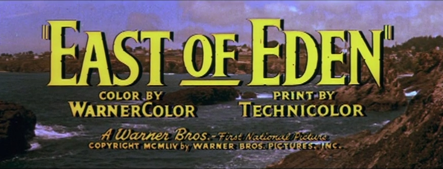 Screenshot of the title screen of the trailer of East of Eden (1955)